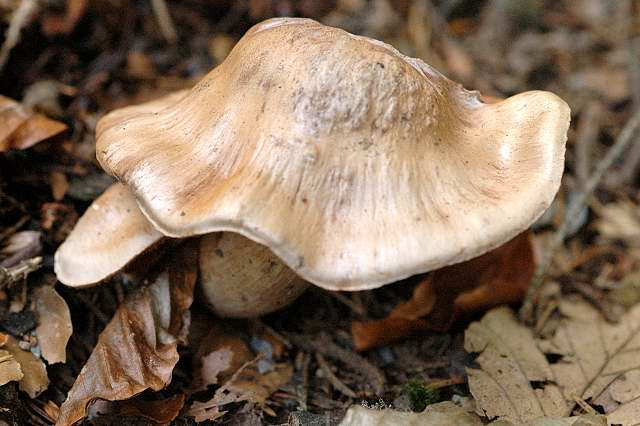 Cortinarius livido-ochraceus from Commanster, Belgian High Ardennes .